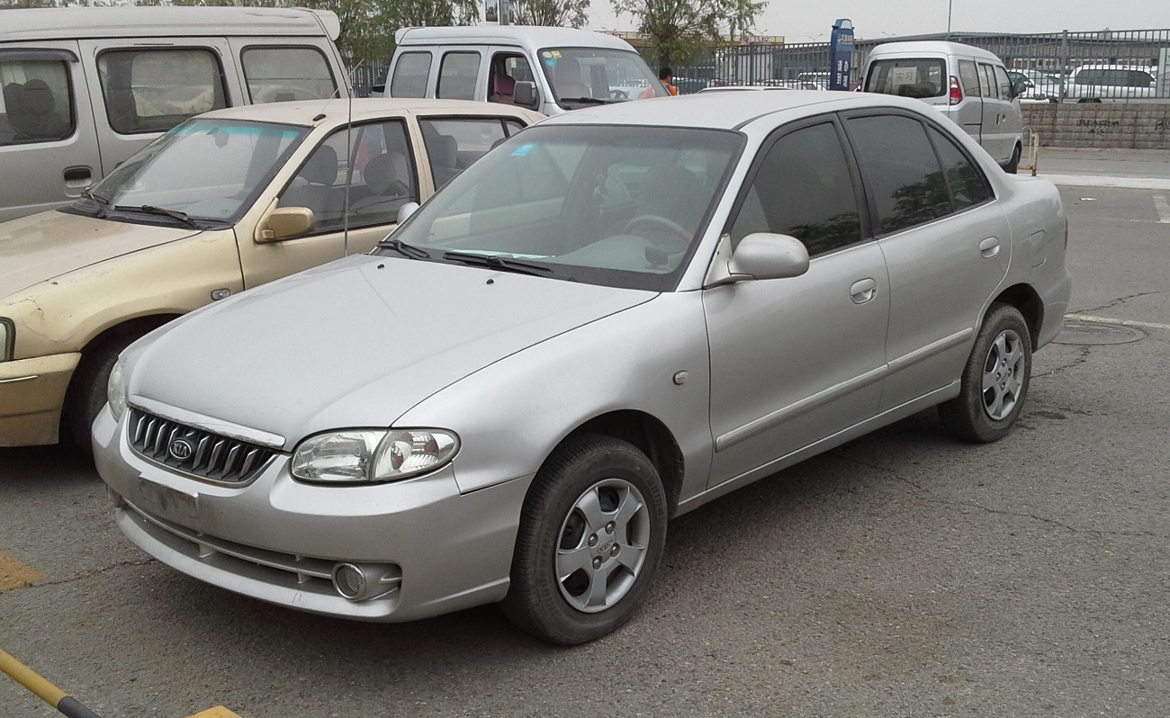 Kia Qianlima facelift photographed in Beijing, China.